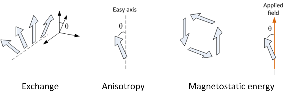 Illustration of the energy type in magnet.